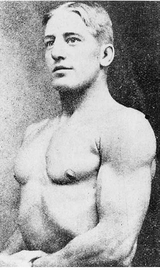 An image of Reginald Baker ("Snowy" Baker) during his boxing career, taken prior to the 1908 Summer Olympics in London.